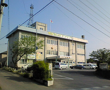 Aomori Prefectural Police Sannohe Police Station